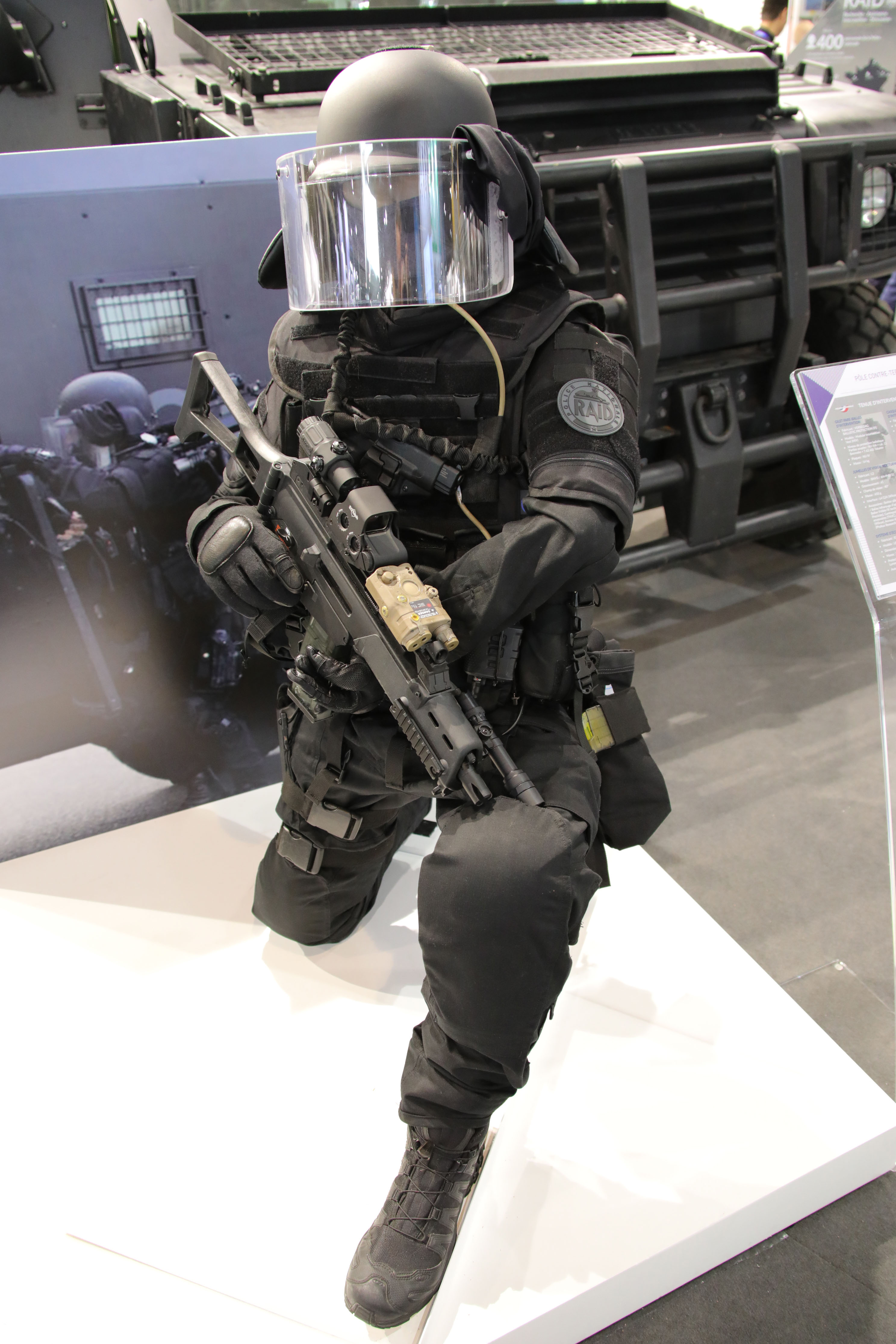 Typical equipment of French police officers from RAID. June 2018